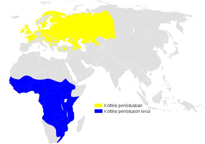 Acrocephalus schoenobaenus distribution map, based on